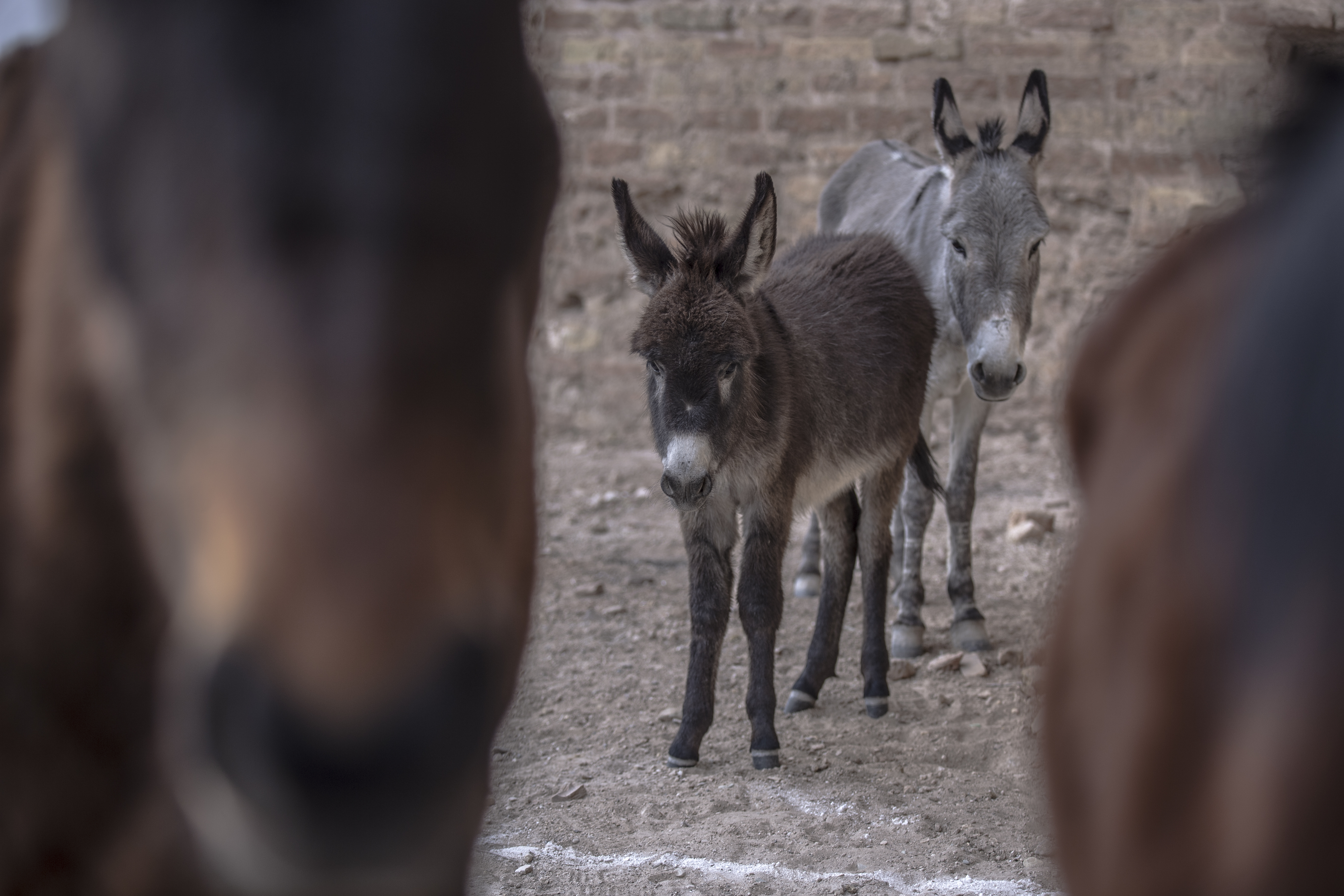 The donkey or ass is a domesticated member of the horse family, Equidae.